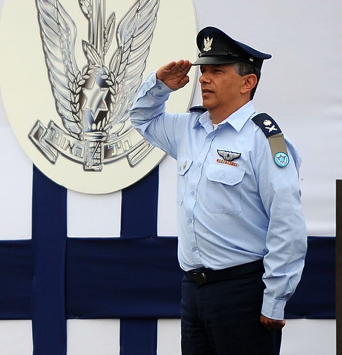 May 14, 2012 Today, Maj. Gen. Amir Eshel was appointed new IAF commander, replacing Maj. Gen. Ido Nechushtan, who retires from the IDF after 37 years of service. The Israel Defense Forces Facebook The Israel Defense Forces blog The Israel Defense Forces website The Israel Defense Forces Twitter